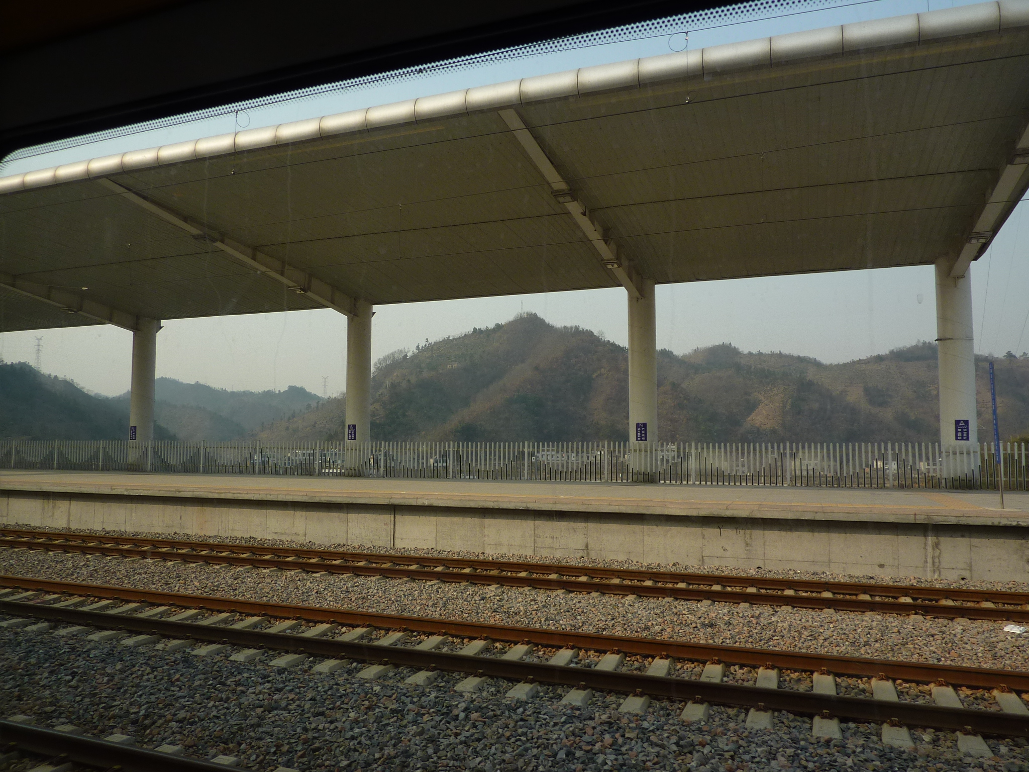 Jinzhai Railway Station on the Hefei-Wuhan railway.